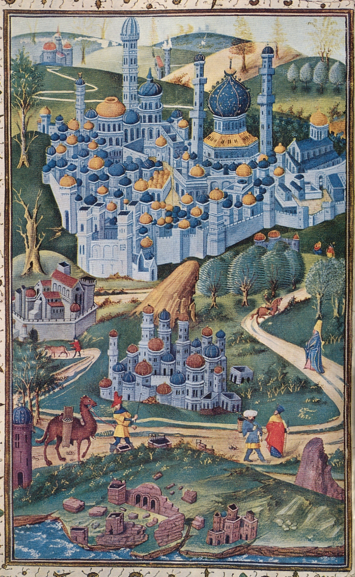 In 1455 Philip the Good ordered Jean Mielot, canon of Lille, to translate the Descriptio Terrae Sanctae, by the Dominican monk, Burchard du Mont-Sion (1283). Against a stylized and conventional background, the artist has set details which show authentic knowledge; one might even think that he had been to the Holy Land himself. At the foot, by the edge of the sea, stands a ruined stronghold, with a great tower. Perhaps this is Athlit, the Pilgrims Castle that the Templars abandoned in 1291. The first town, bristling with minarets, may well be Ramleh; the one on the left is certainly Bethlehem, with its great basilica. Jerusalem is viewed from the west; the Dome of the Rock still retains its octagonal shape, although the bulbous dome is imaginary; to the right stands Al-Aqsa, shown as a church. On the left the Holy Sepulchre displays its large, open-topped dome, and its outer enclosure. In the foreground the Tower of David can be seen complete with its four corner towers. The Dome of the Ascension dominates the Mount of Olives, up which winds a zigzag road. One might even, with a varying degree of certainty, be able to identify also St. James, St. Anne, Latin-Saint-Mary and the Hospital.